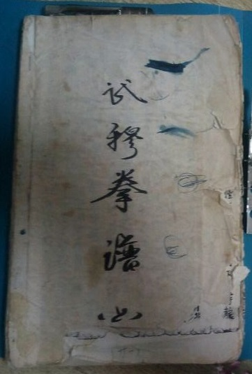 Wu Mu Quan Pu